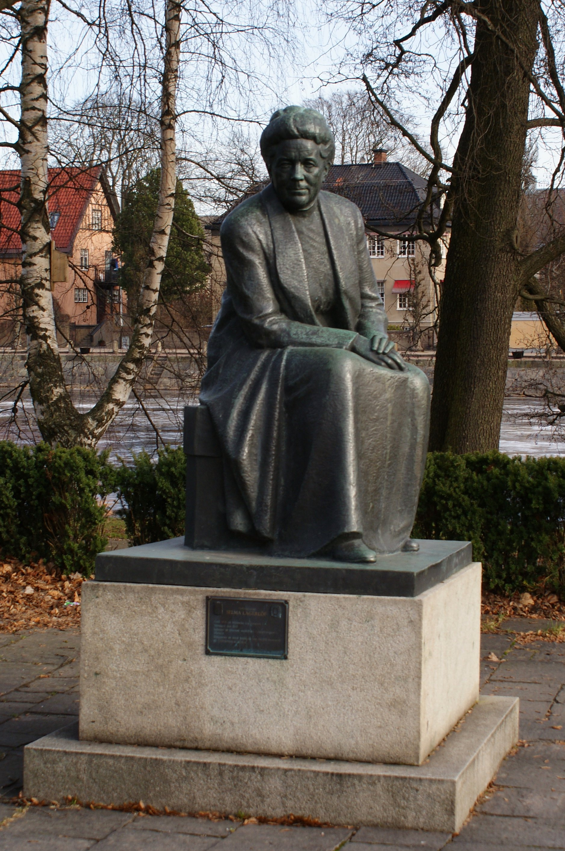 Statue of the writer Selma Lagerlöf in Karlstad, Sweden.